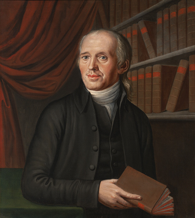 Sitter: Rev. Justus Henry Christian Helmuth, 16 May 1745 - 5 Feb 1825 Artist: John Eckstein, 1736 - 1817 Date of Work: c. 1795 Medium: Oil on canvas Dimensions: 78.8cm x 71.1cm (31" x 28"), Accurate Owner : National Portrait Gallery, Smithsonian Institution Acquisition Date: 1967-01-30 Credit Line: National Portrait Gallery, Smithsonian Institution Ref. NPG.67.7